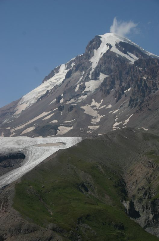 The massive Gergeti glacier next to Mt. Kazbek